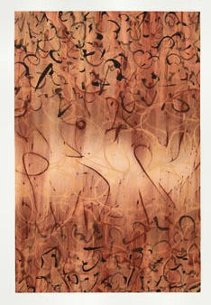 End of Texts (original size 26" x 35")